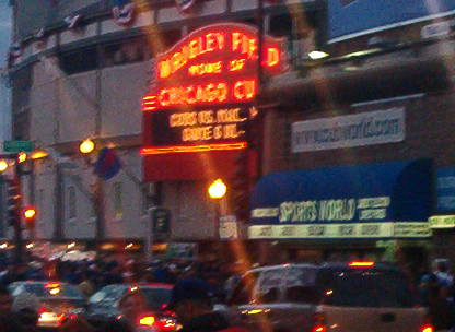 took this myself good night game shot 03:50, 8 August 2007 . . Wjmummert . .416 x 304 (32,734 bytes)